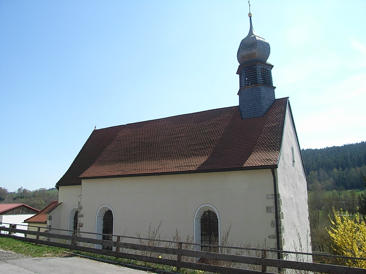 Regen, St John Subsidiary Church from north.